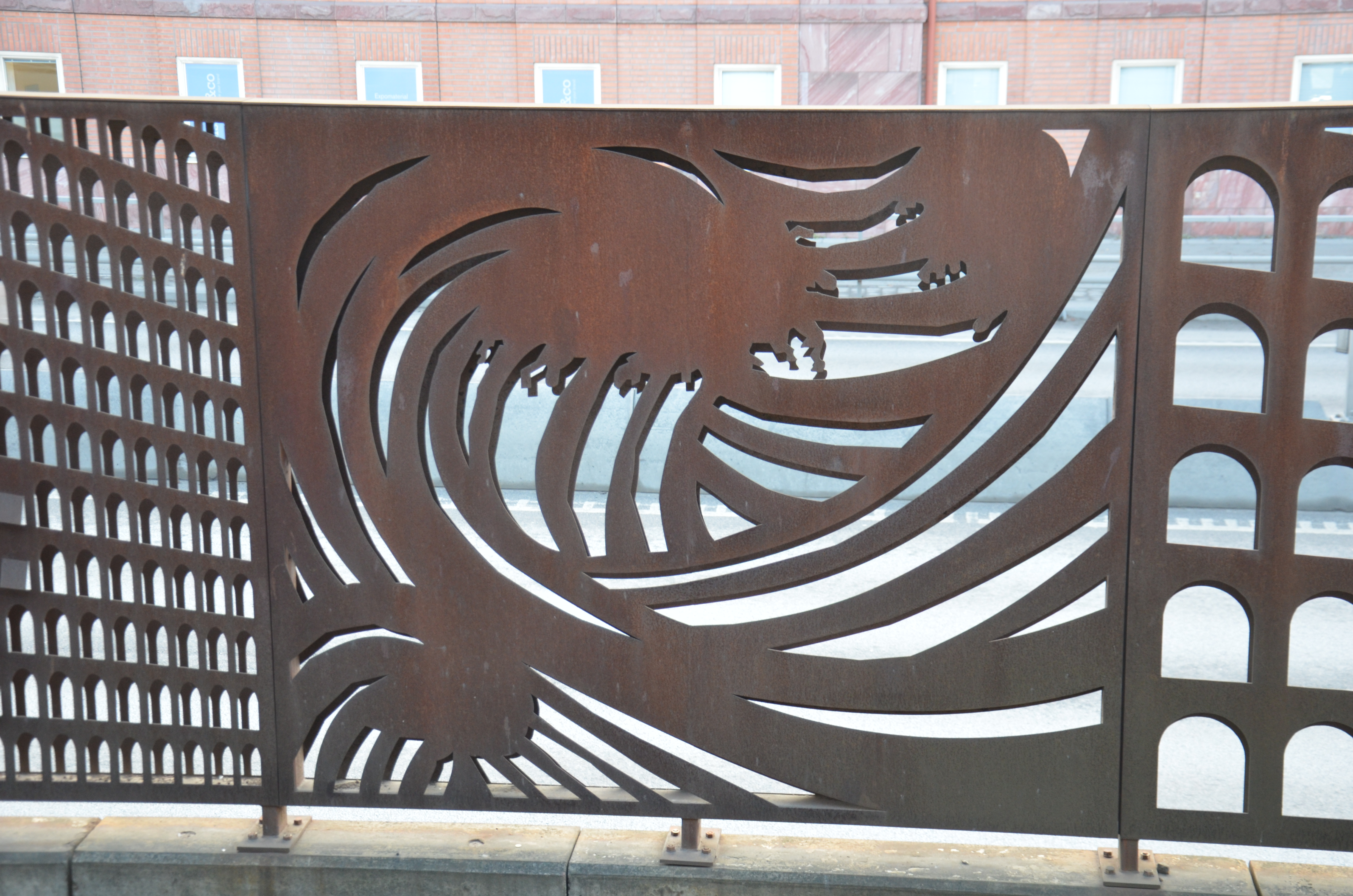 Heransaj Kodas Dropp från fjärran på Alviks tunnelbanestation, 1999